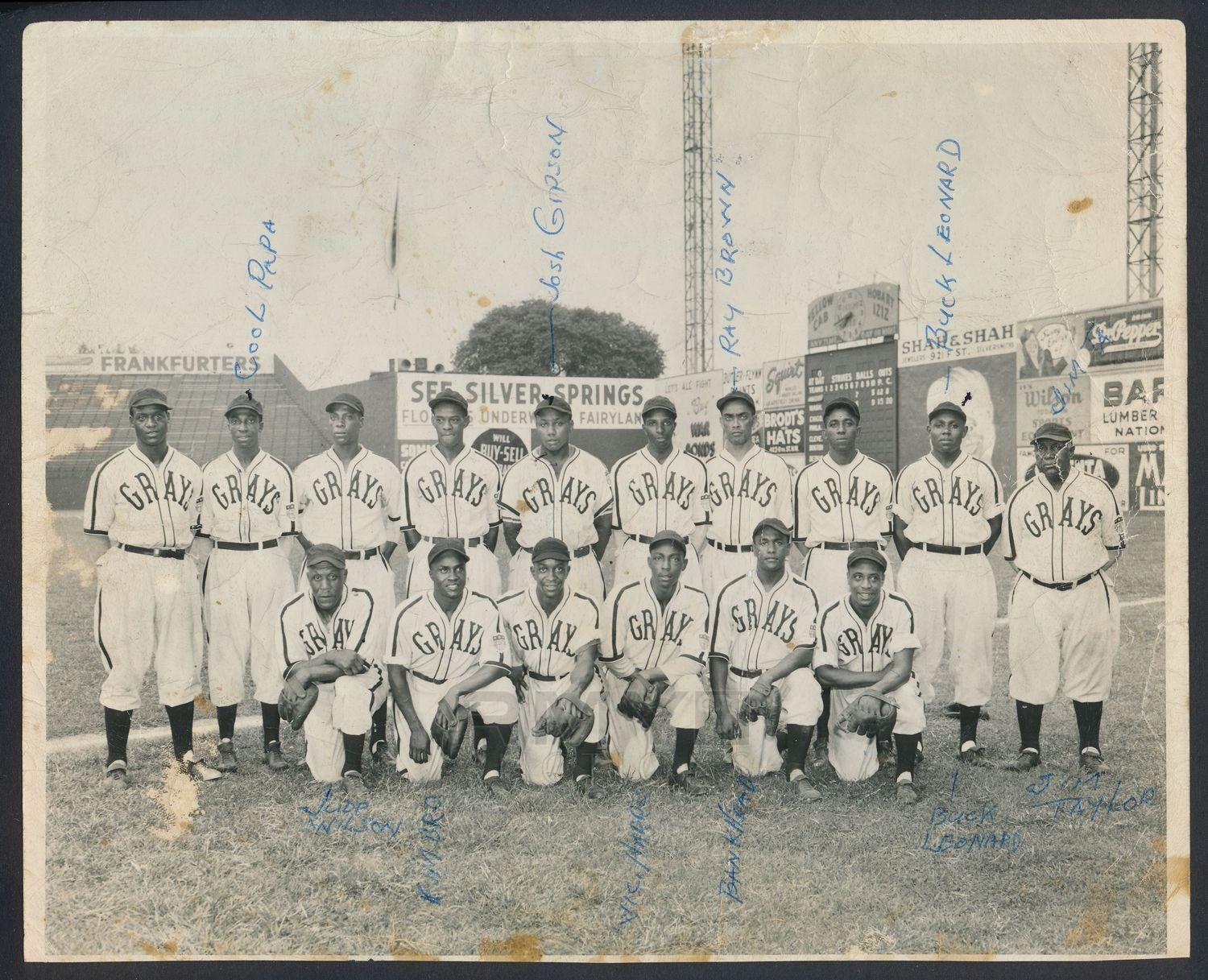 Original team photograph of the 1943 Homestead Grays. Back (l-r): Big Edsall Walker, James Cool Papa Bell, Roy Partlow, Thad Christopher, Josh Gibson, Johnny Wright, Ray Brown, Ernest Spoon Carter, Buck Leonard, Candy Jim Taylor (manager). Front (l-r): Jud Wilson, Jerry Bingham, Joe Spencer, Vic Harris, Sam Bankhead, Matt Carlisle.